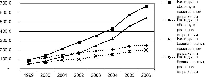 Russian defense budget